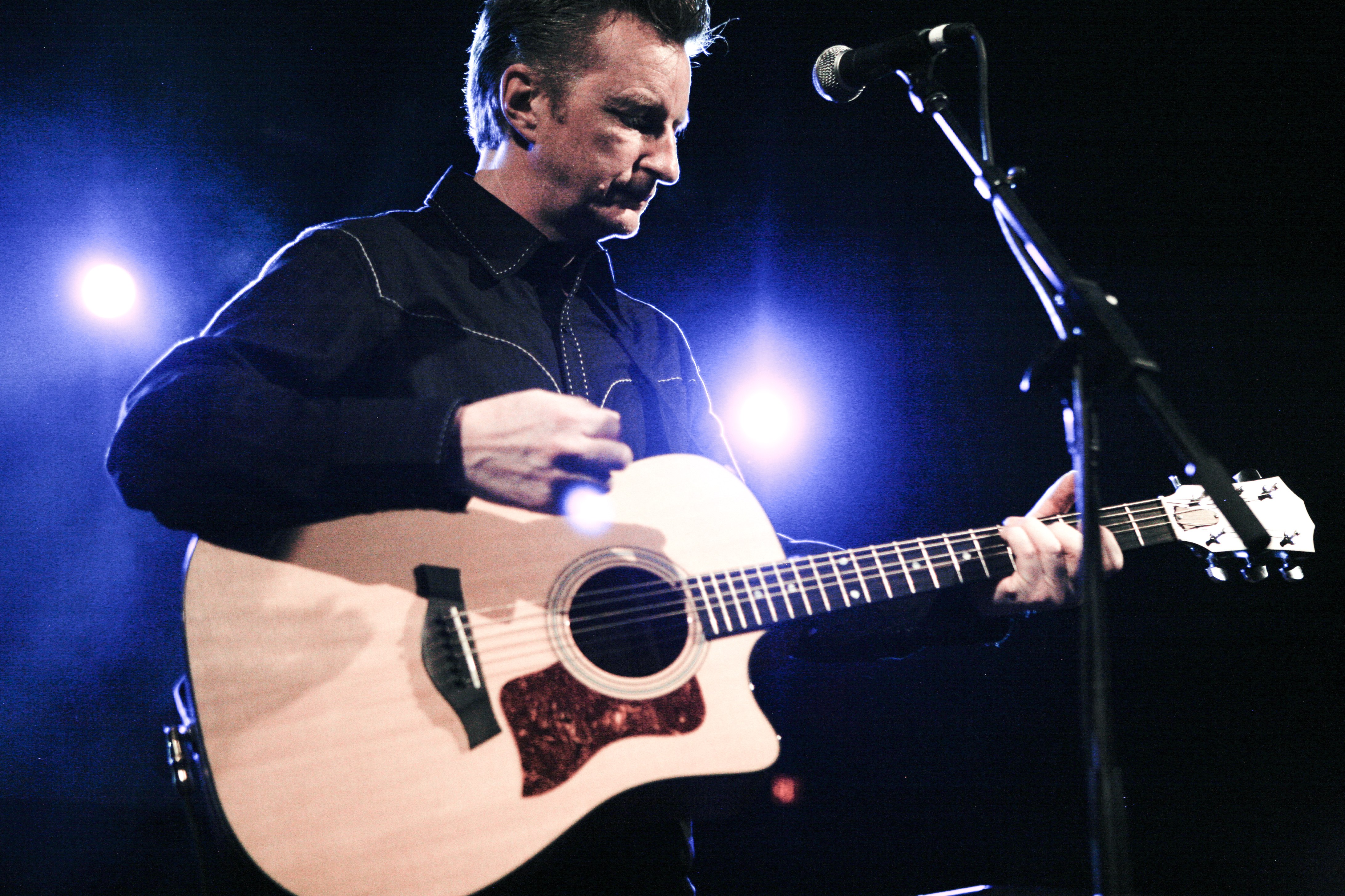 Billy Bragg performing at South by Southwest in 2008. Photographed by Kris Krug.